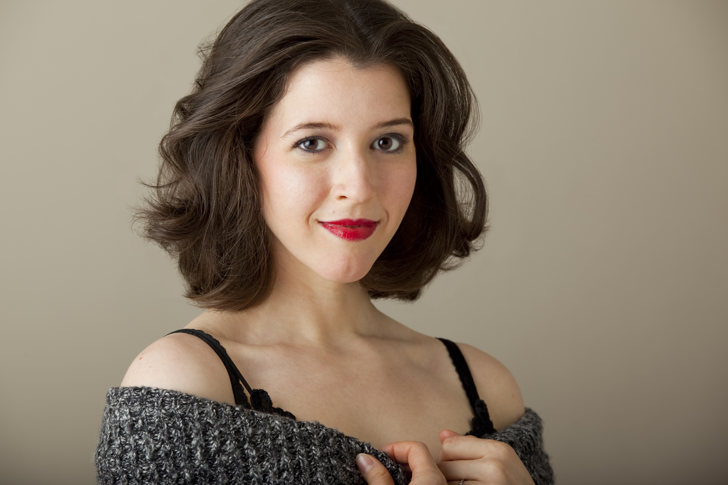 Lisette Oropesa to sing the role of Pamina in Magic Flute